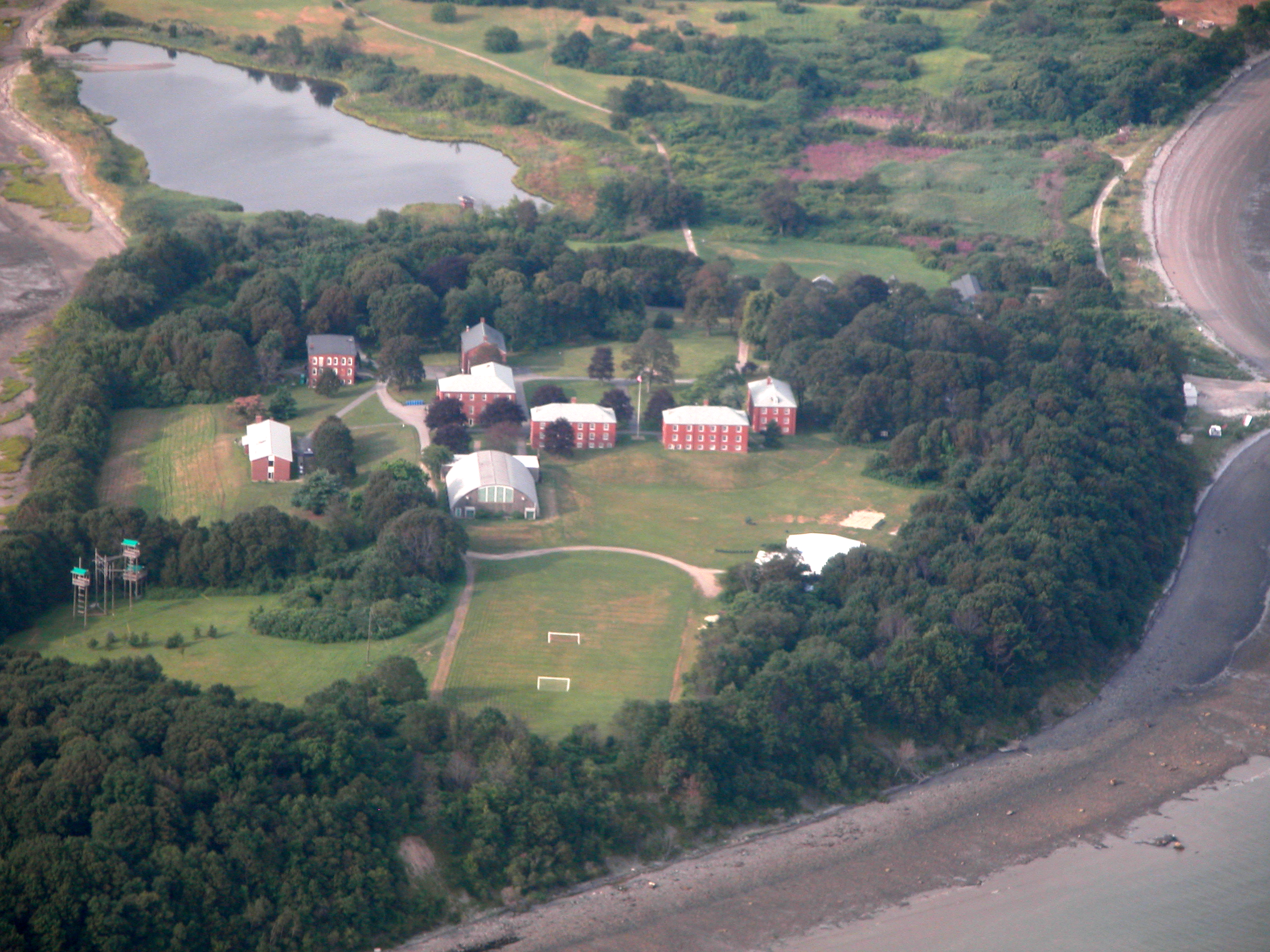 Thompson Island. the Thompson Island Outward Bound facility and Conference Center.